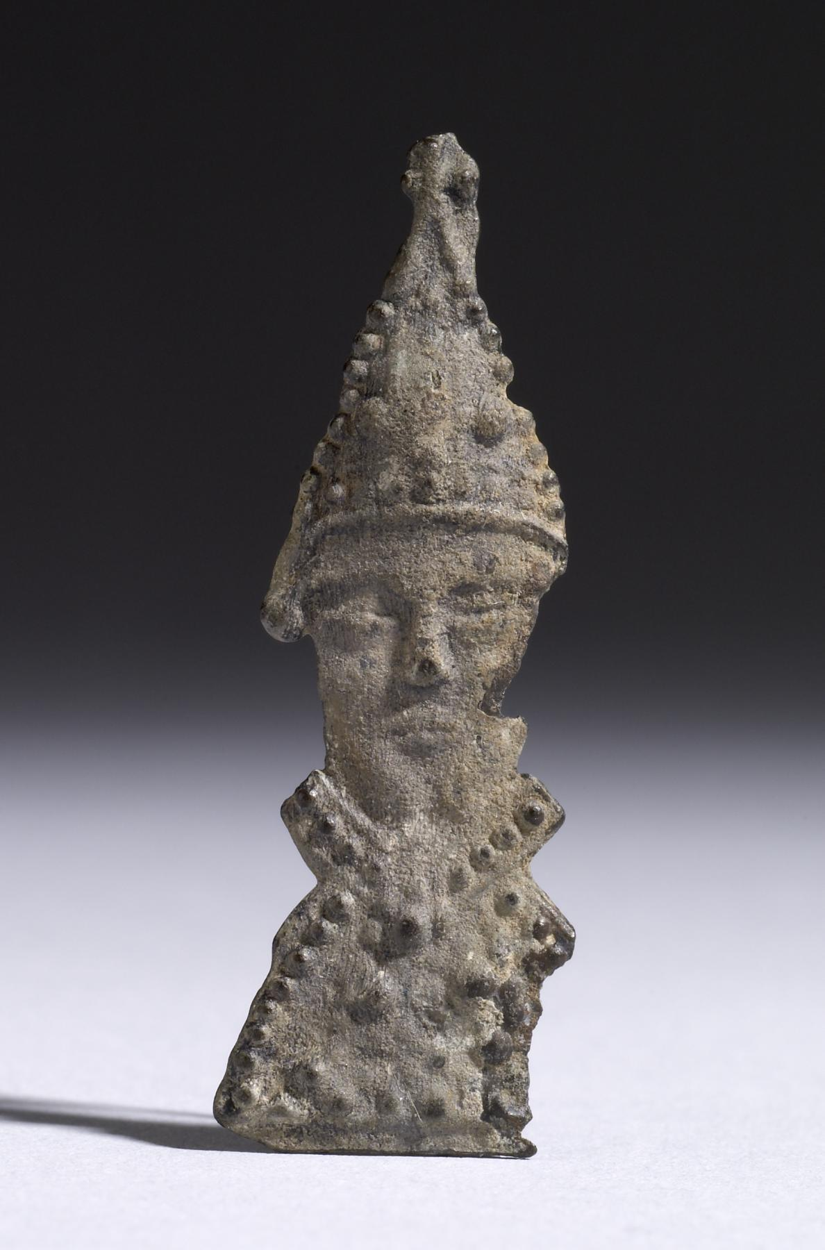 After Thomas Becket was murdered in 1170, a cult emerged and he became the symbol of the conflict between temporal and spiritual rulers at a time when European monarchs were struggling to affirm their sovereignty over the Church. Accounts of miracles at the sanctuary of Christ Church Cathedral in Canterbury began to circulate, and Becket's tomb quickly became a popular pilgrimage destination. His growing renown led to his canonization little more than two years after his death, officially endorsing popular practice and belief. Pilgrims could buy mementos at the shrine such as badges like this one, which spread the saint's fame through much of northern Europe.